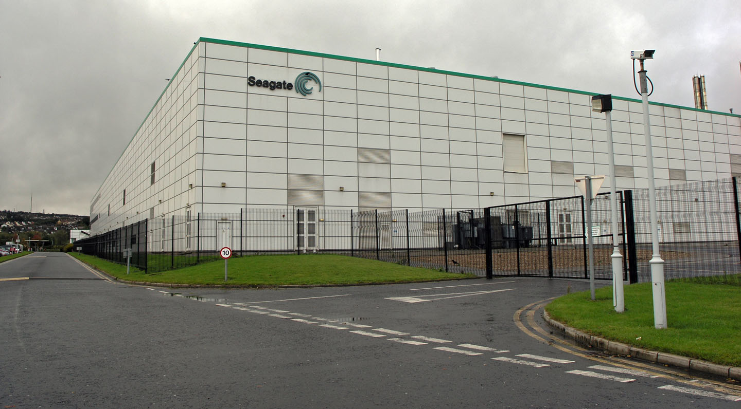 My own work - SeanMack - image of the Seagate factory in Derry, Northern Ireland.